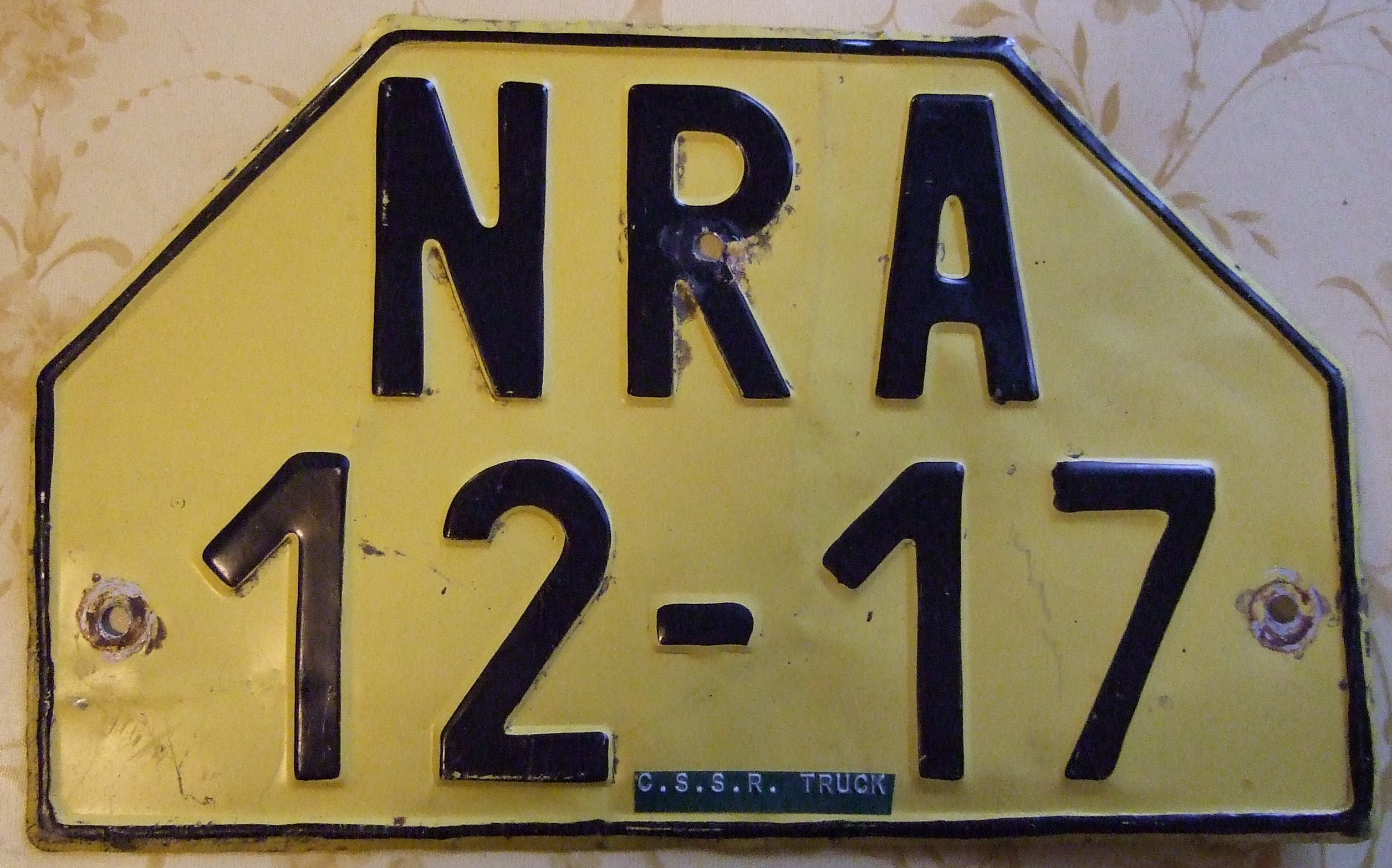 A truck plate from Czechoslovakia circa 1970's. This plate was issued in the city of Rakovnik (RA).